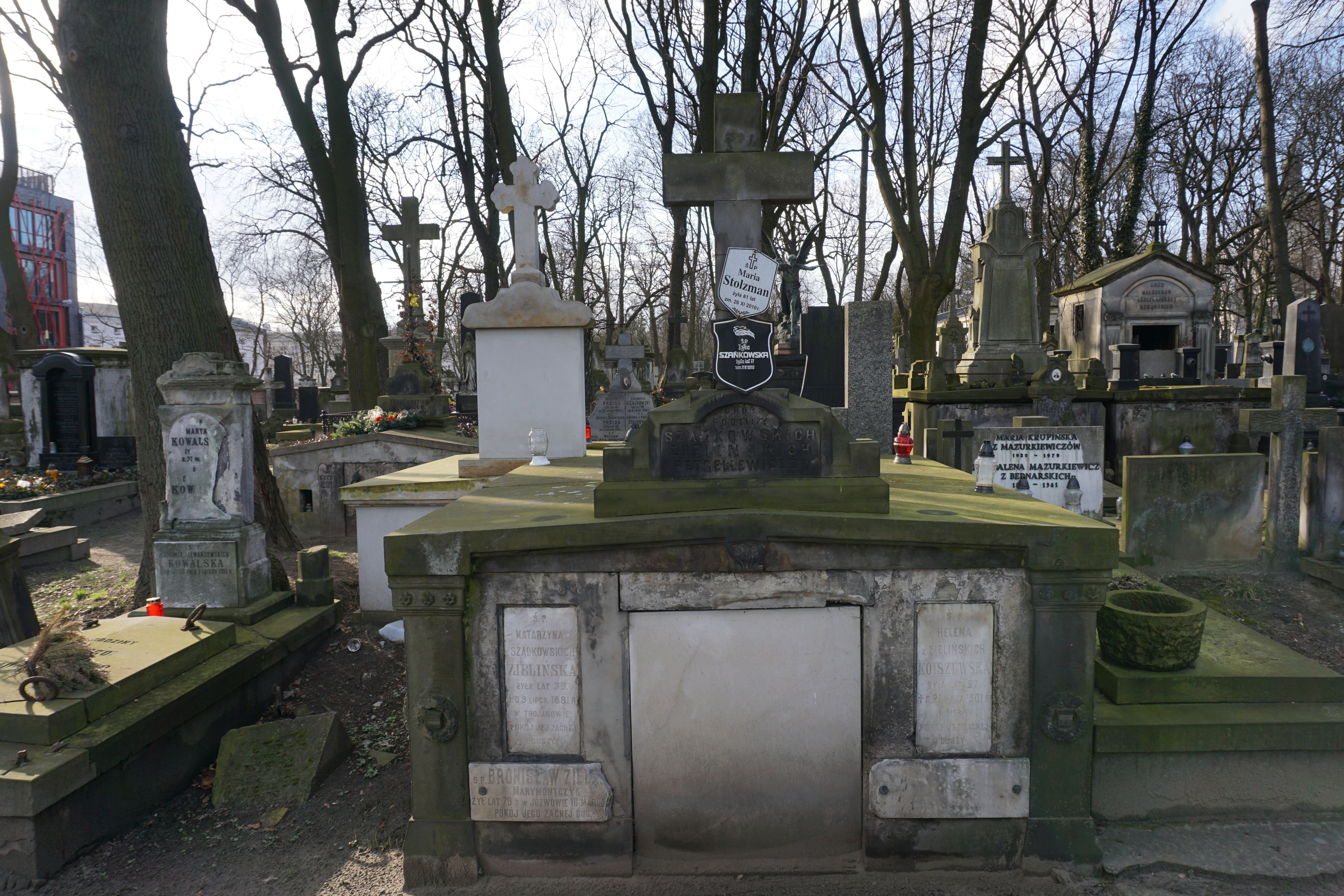 The grave of Maria Stolzman at the Powązki Cemetery (section 161, row 3, grave 24, 25)